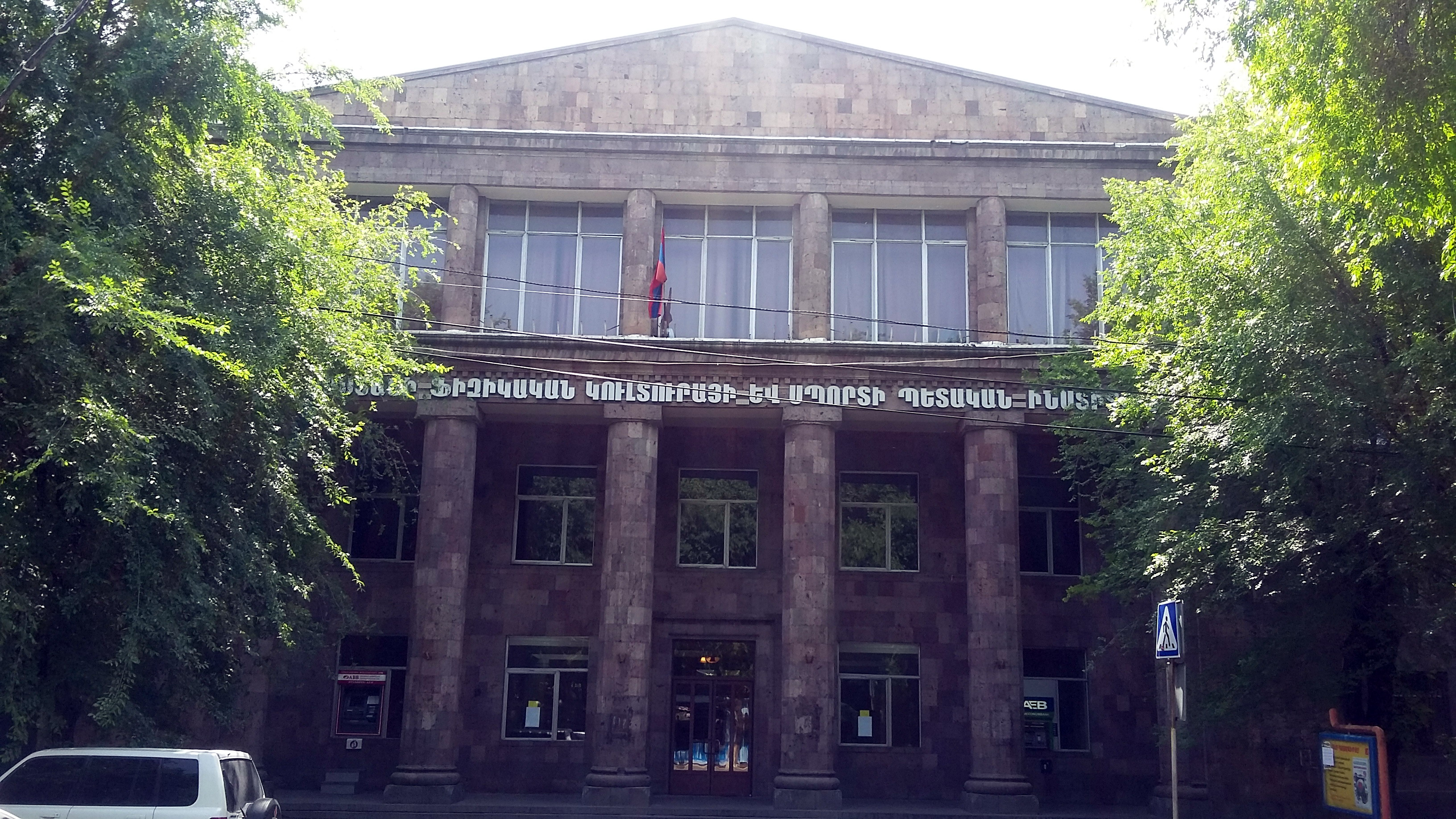 Armenian State Institute of Physical Culture and Sport